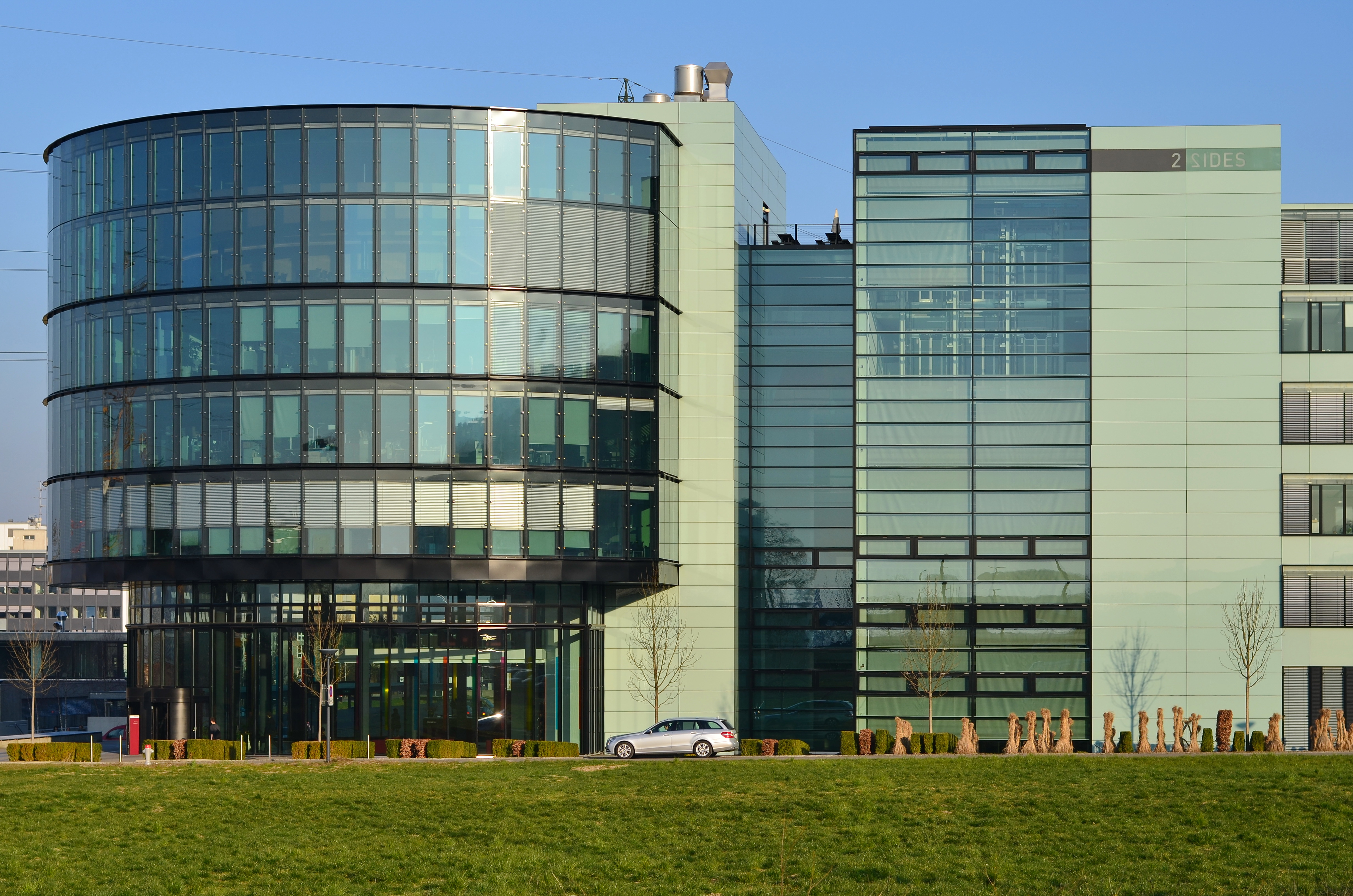 Dübendorf : Helsana Assurances, Administration building nearby Railway station Zürich-Stettbach.